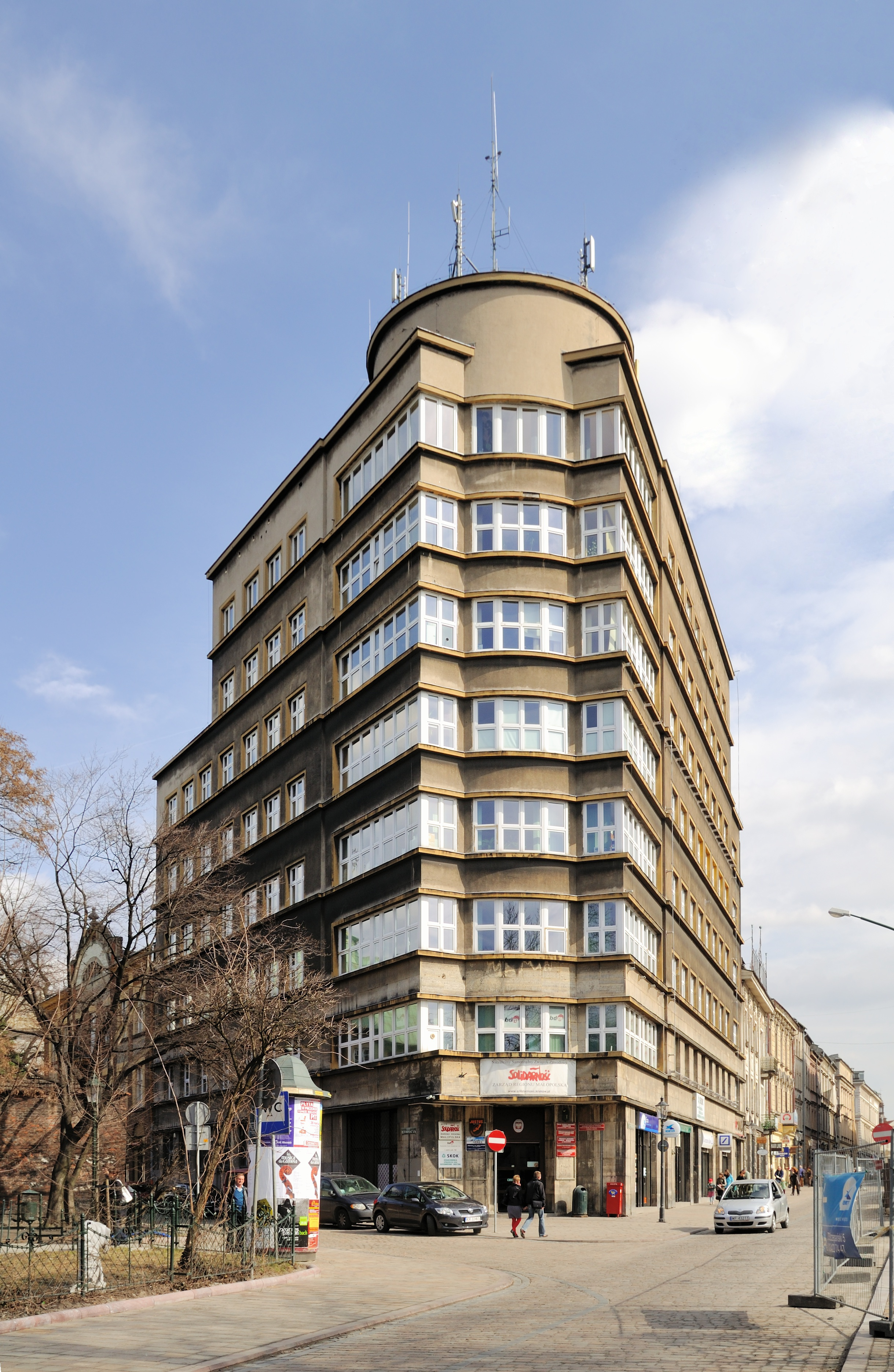 KKO house in Kraków (house of the municipal savings bank).